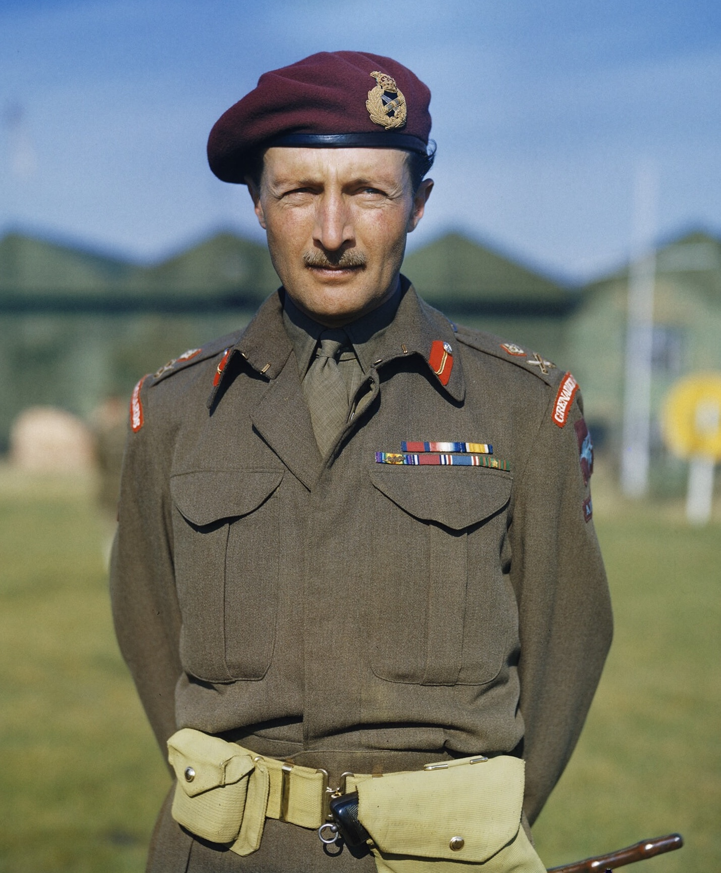 Major-General F.A.M. (Boy) Browning at Netheravon. Cropped version for his biography